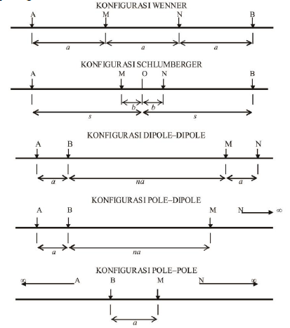 common configuration geoelectrical method